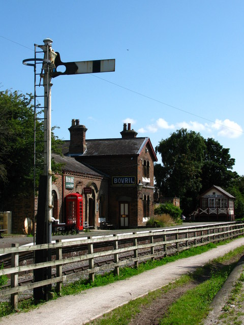 Hadlow Road Station, Willaston